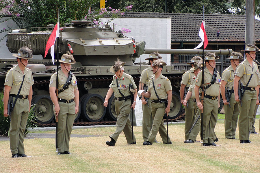 1/15th Royal NSW Lancers on parade at Lancer Barracks, Parramatta. Comment: in the background is a preserved Centurion tank.